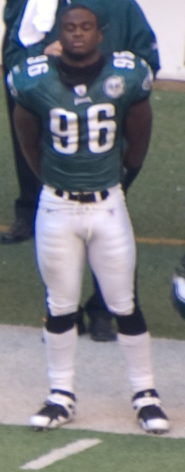 Flag raising ceremony before a Philadelphia Eagles/Dallas Cowboys game at Texas Stadium.